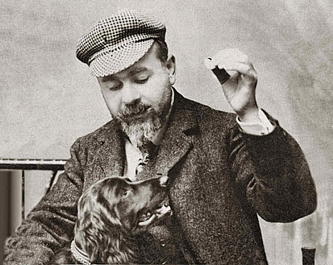 Adamo Boari, photo at the beginning of the 20th century.